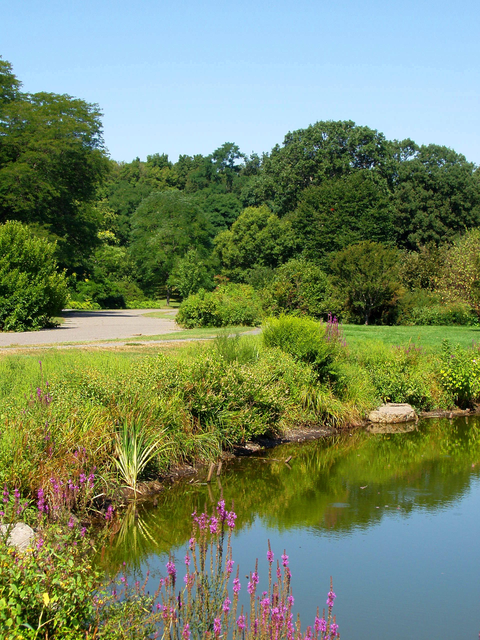 Arnold Arboretum, Jamaica Plain, Boston, Massachusetts. General view (b); photograph taken by me, August 2005.